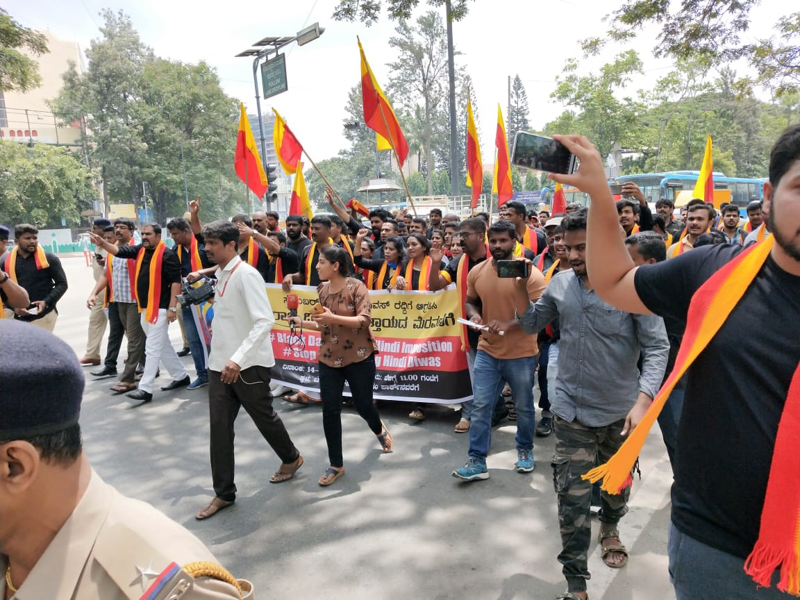 Photo of the Anti Hindi March in Bengaluru